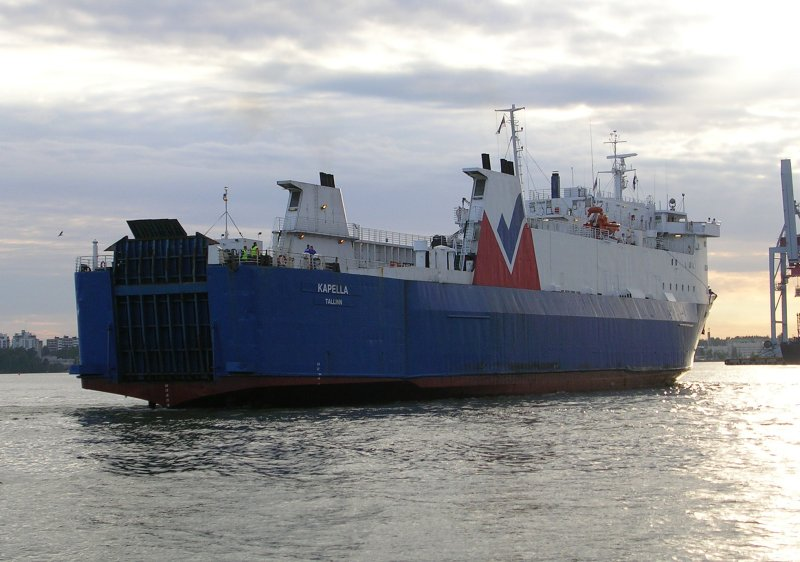 M/S Kapella in Helsinki, summer 2005. Picture taken and uploaded by Kalle Id. IMO Number: 7369118 MMSI Number: 276266000 Callsign: ESIC Length: 110 m Beam: 20 m